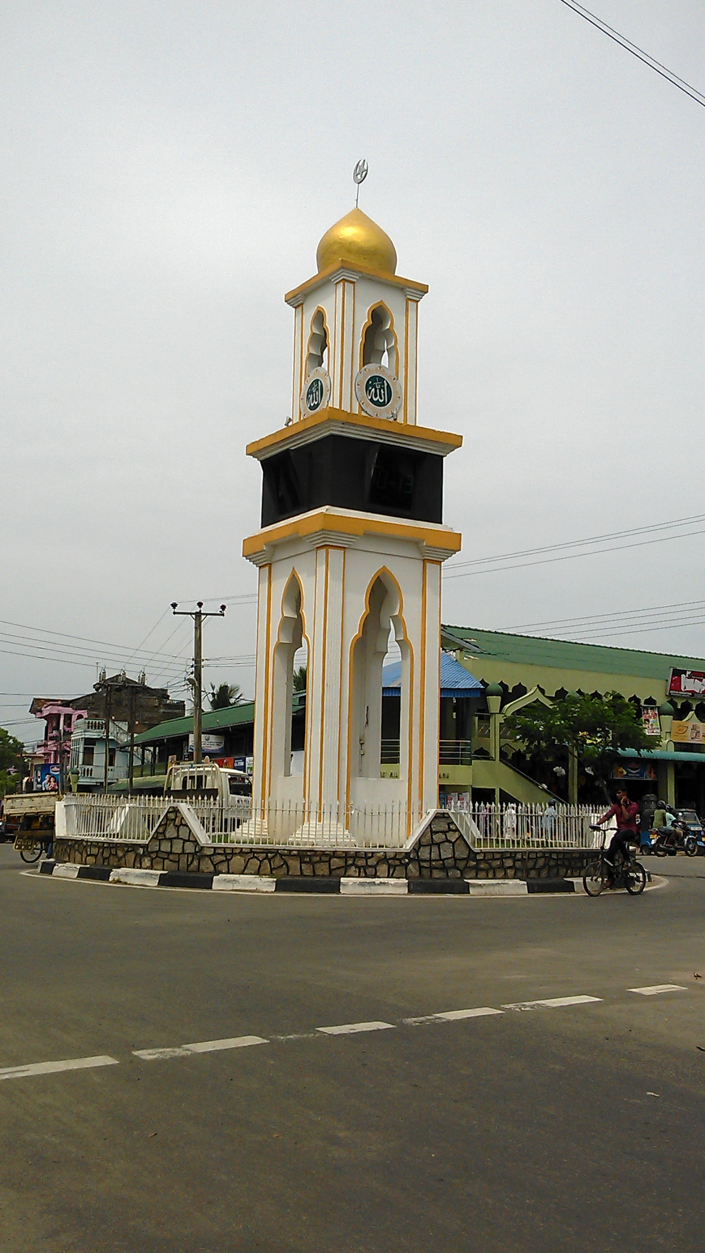 Samanture Clock Tower